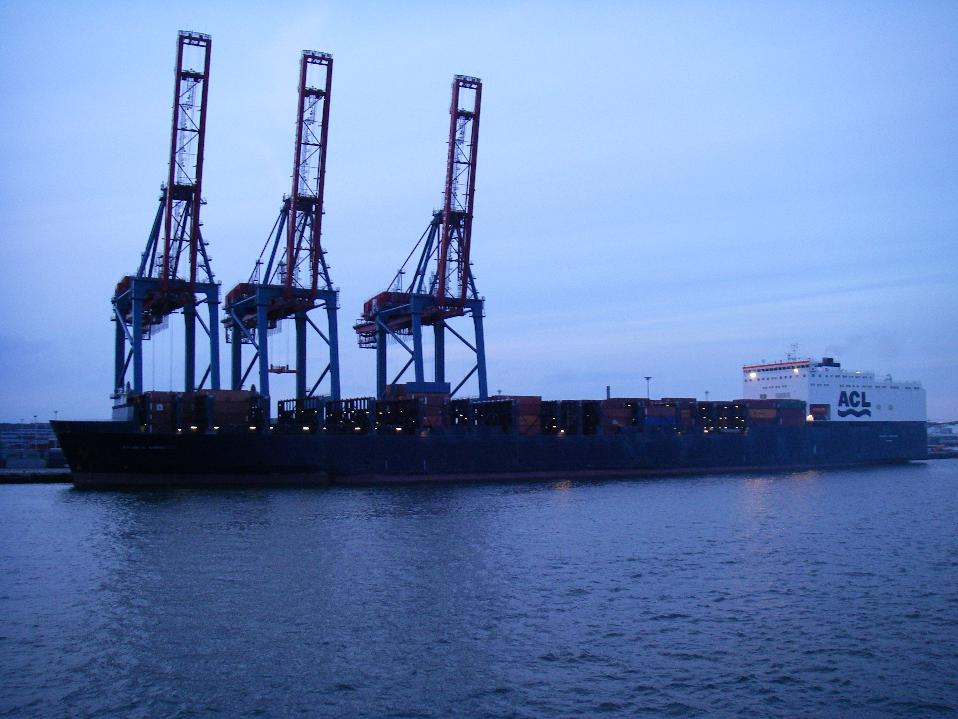 The con-ro vessel Atlantic Conveyor i Skandiahamnen, Port of Gothenburg.